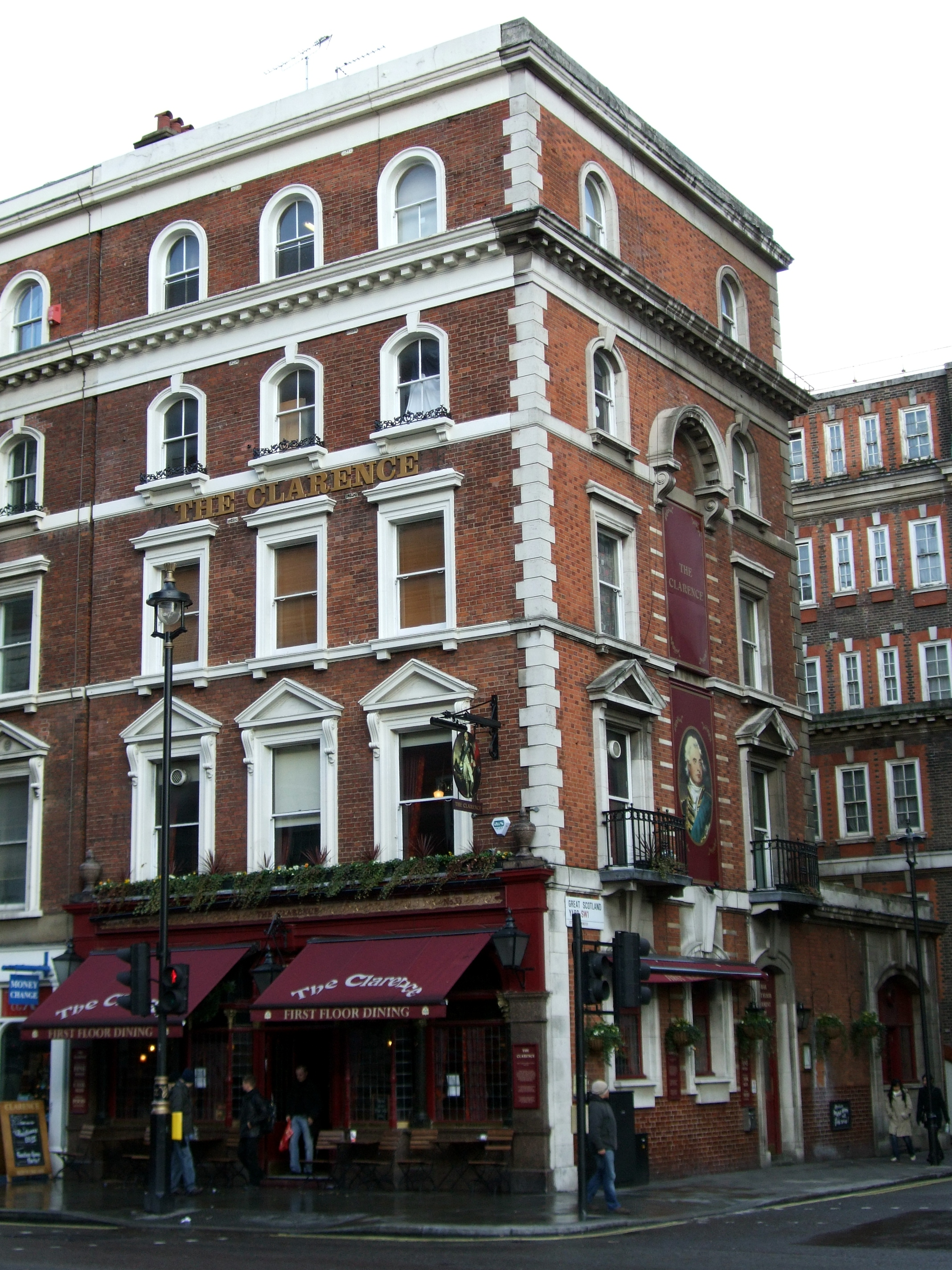 "The Clarence", one of a line of pubs along Whitehall. Since this photo was taken, it's been acquired by Geronimo Inns and brightened up considerably. Address: 53 Whitehall (formerly Charing Cross). Former Name(s): The Clarence Tavern; The Duke of Clarence (?). Owner: Young's [Geronimo Inns] (website); Punch Taverns [Spirit Group] (former). Links: Fancyapint Beer in the Evening Qype Dead Pubs (history)